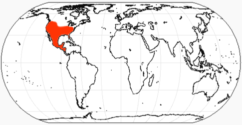 Borophagus range based upon fossil finds